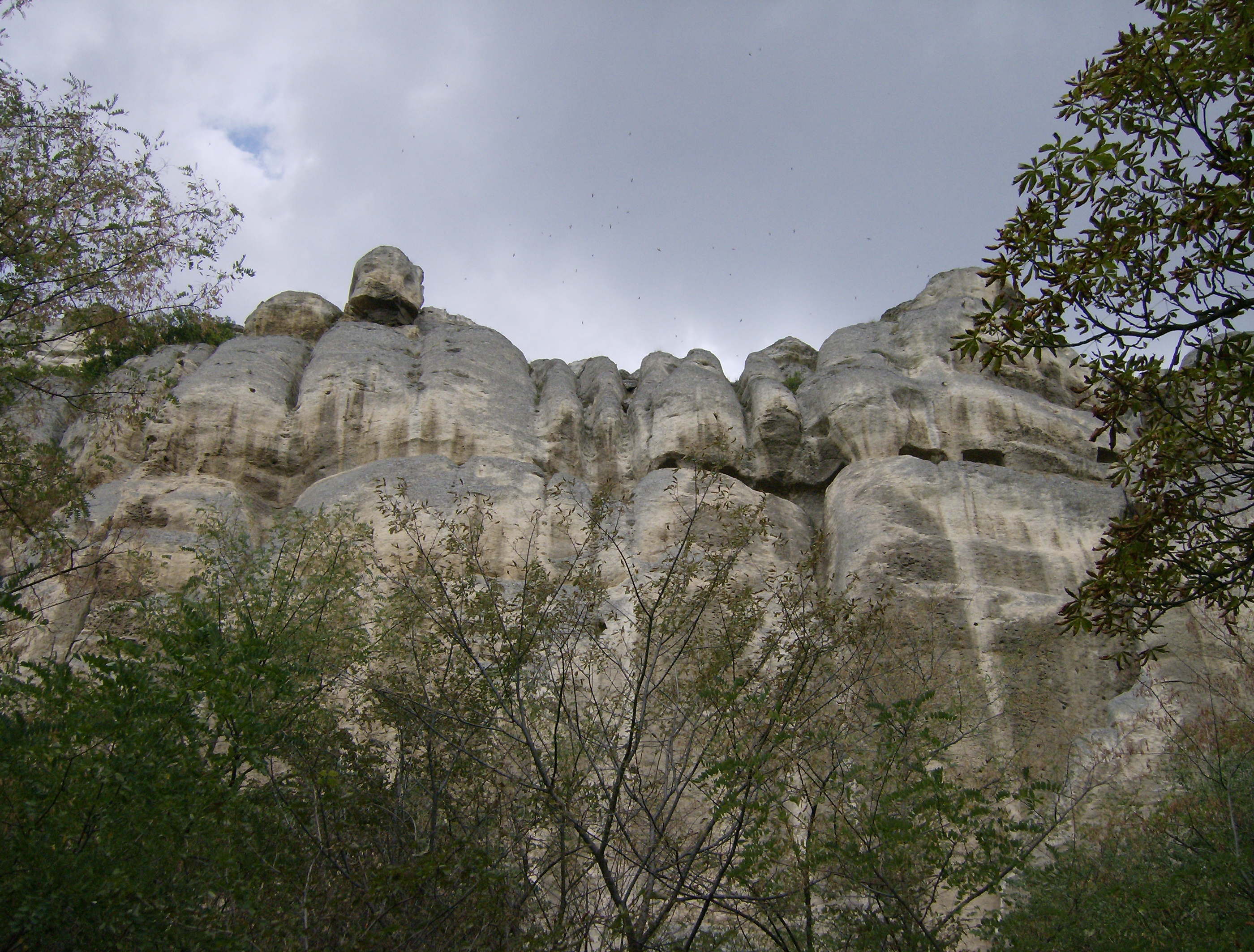 Madara rocks